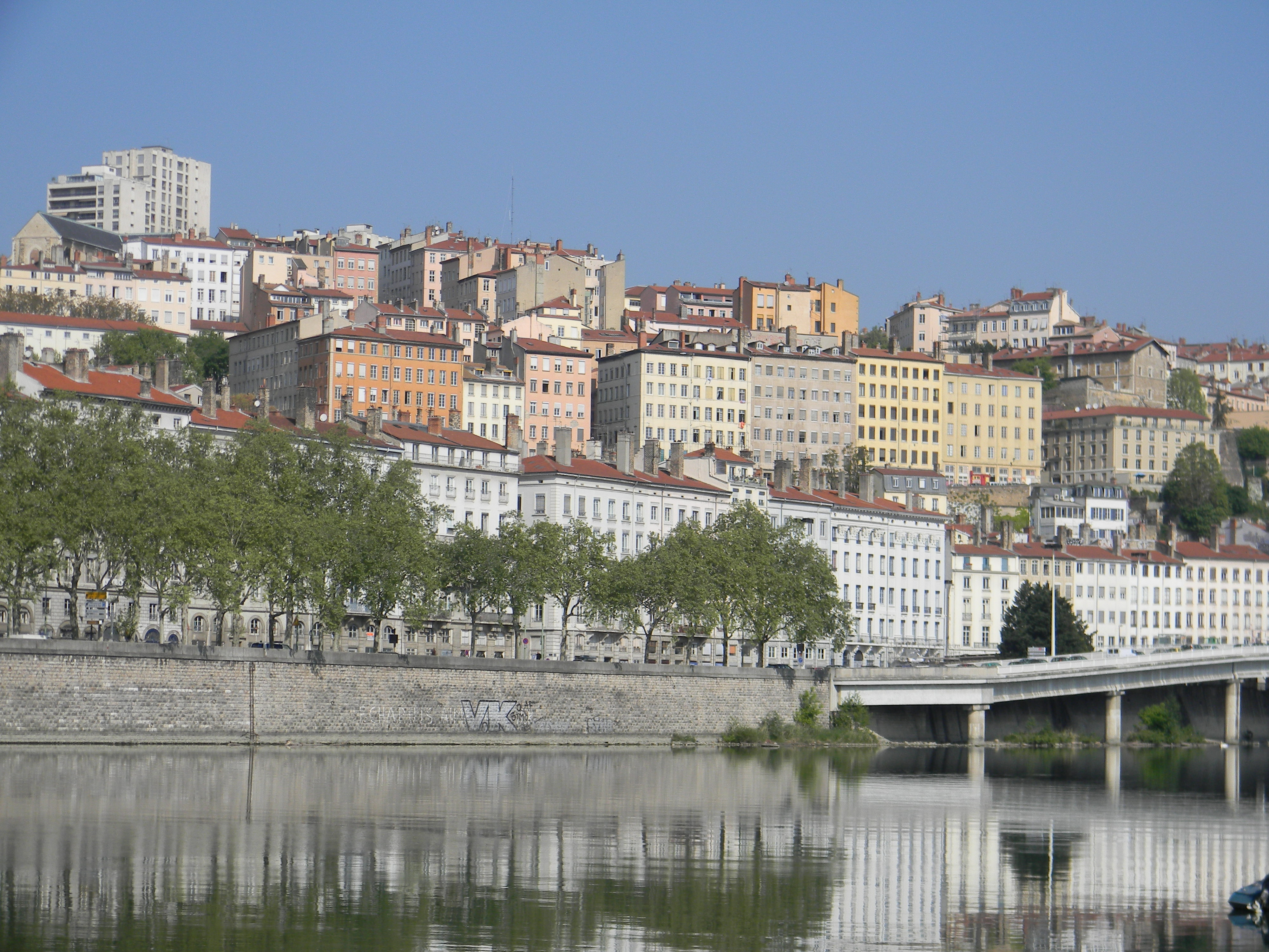 View of the "Croix-Rousse" district in Lyon, from the Rhône's left bank around Morand bridge.